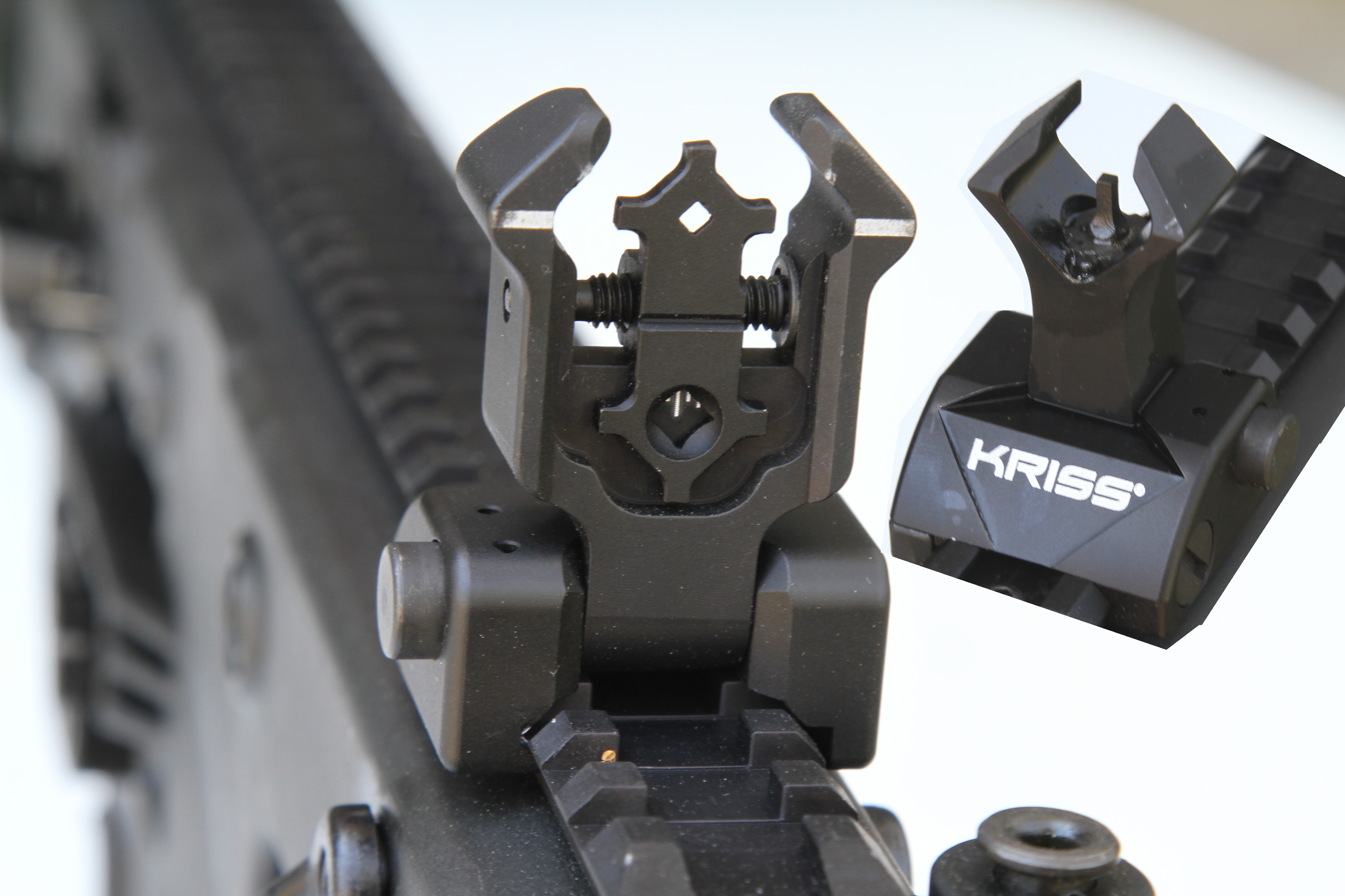 Front and Rear Sights Kriss Vector Carbine.